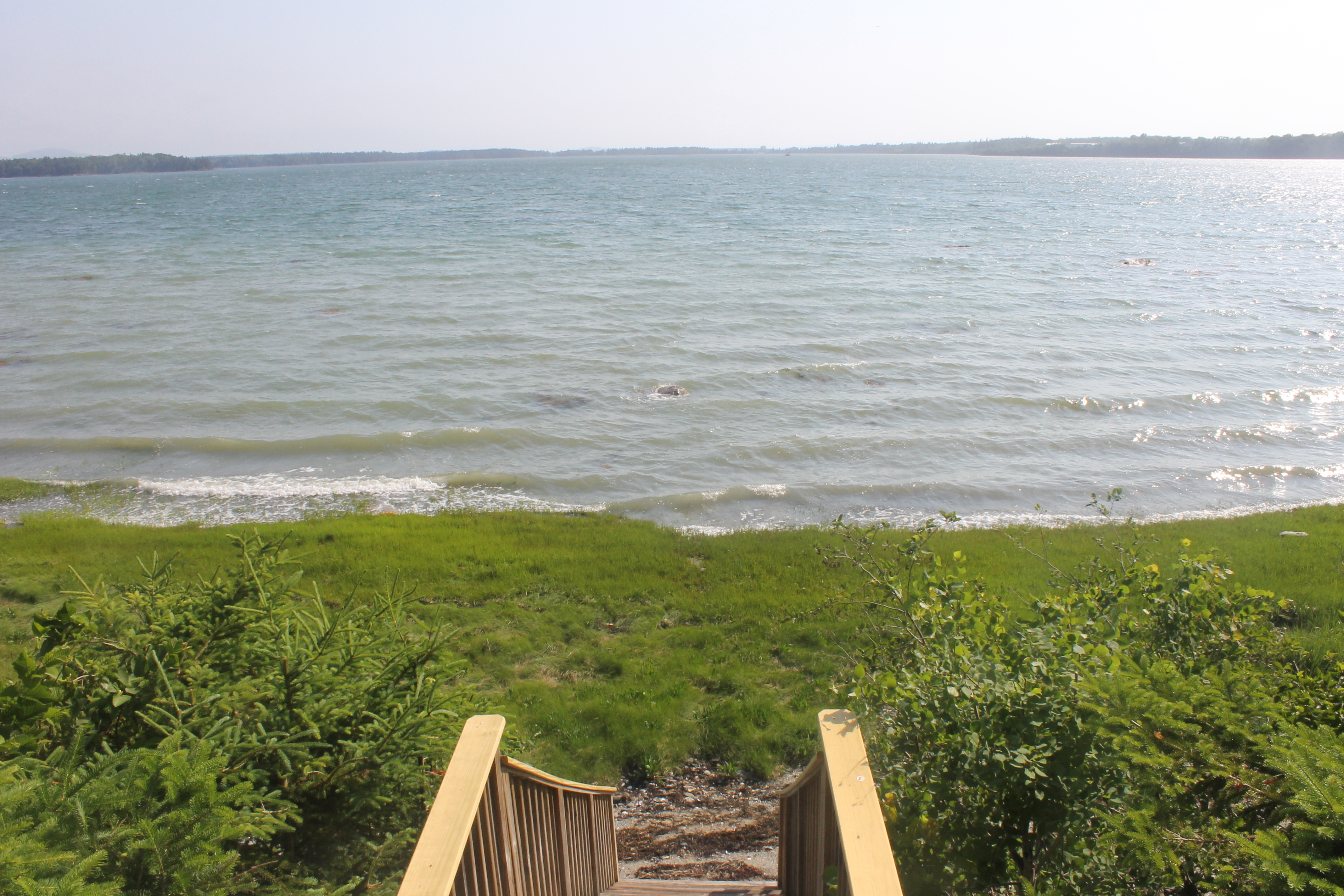 I took photo of Frenchman Bay at high tide from the backyard of a residence in Lamoine, ME, using a Canon camera.